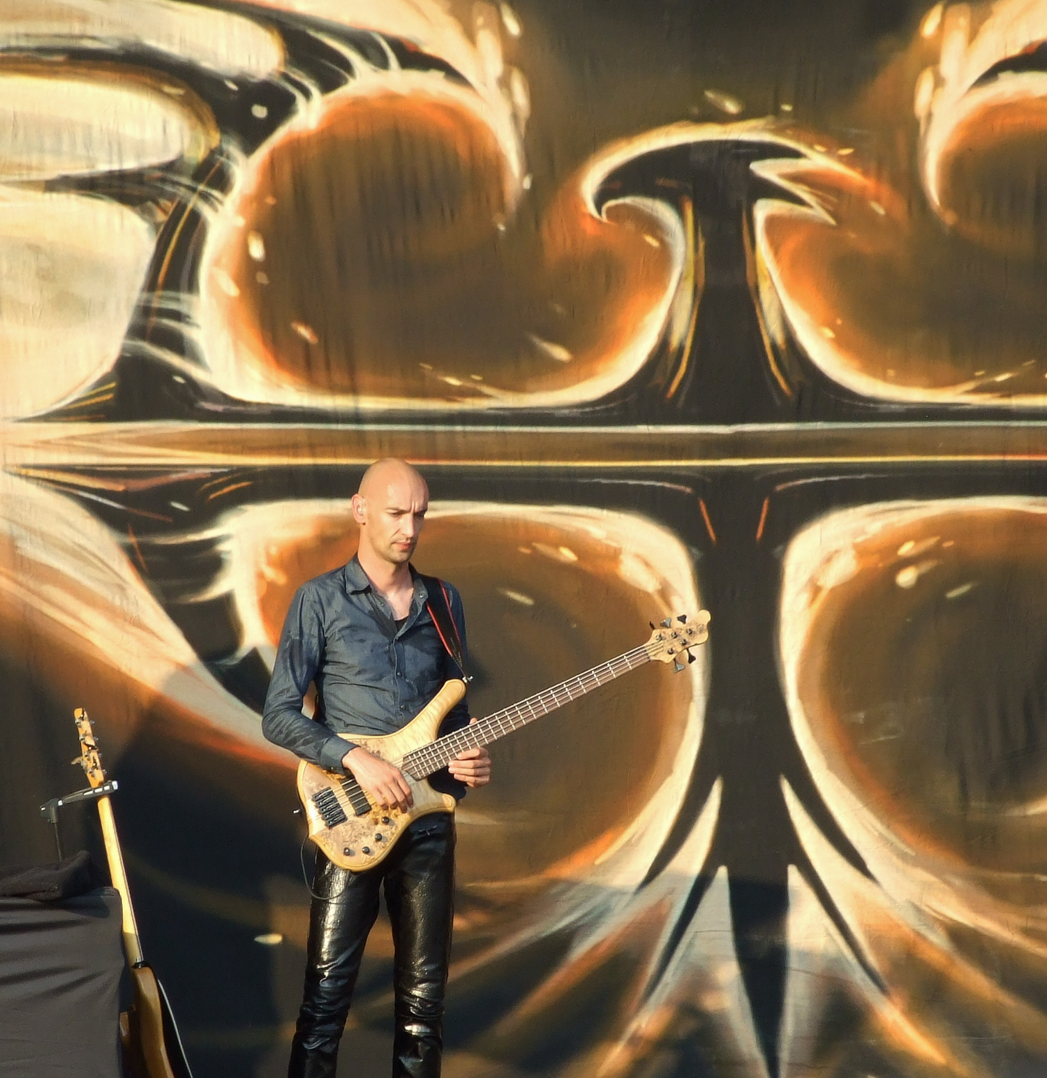 Jeroen van Veen, bass guitarist of the Dutch rock band Within Temptation at Sofia Rocks Fest 2012.